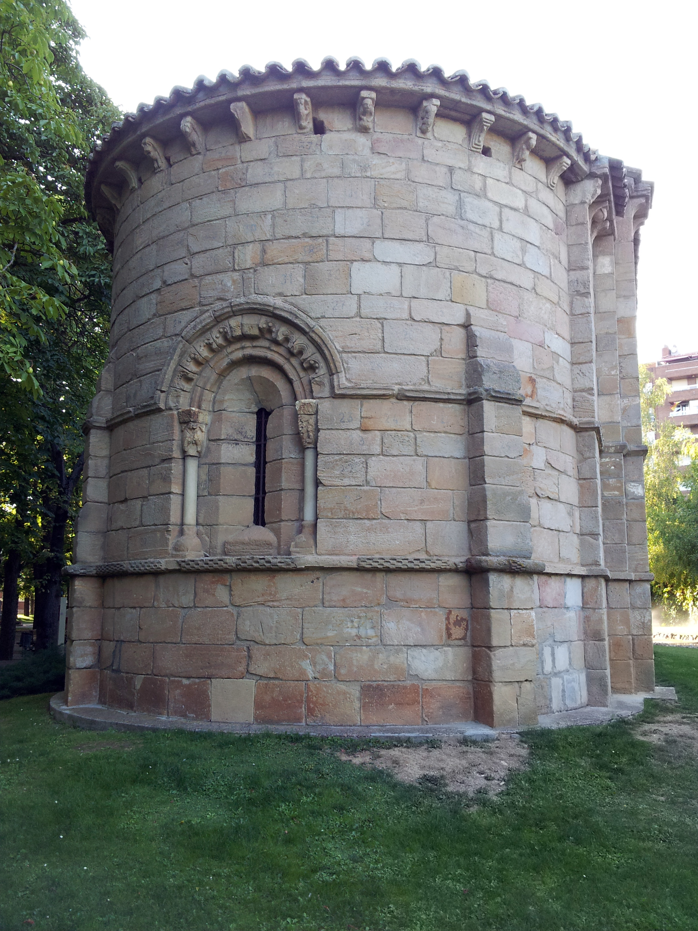 San Juan Bautista hermitage, Palencia. (Palencia, Spain)